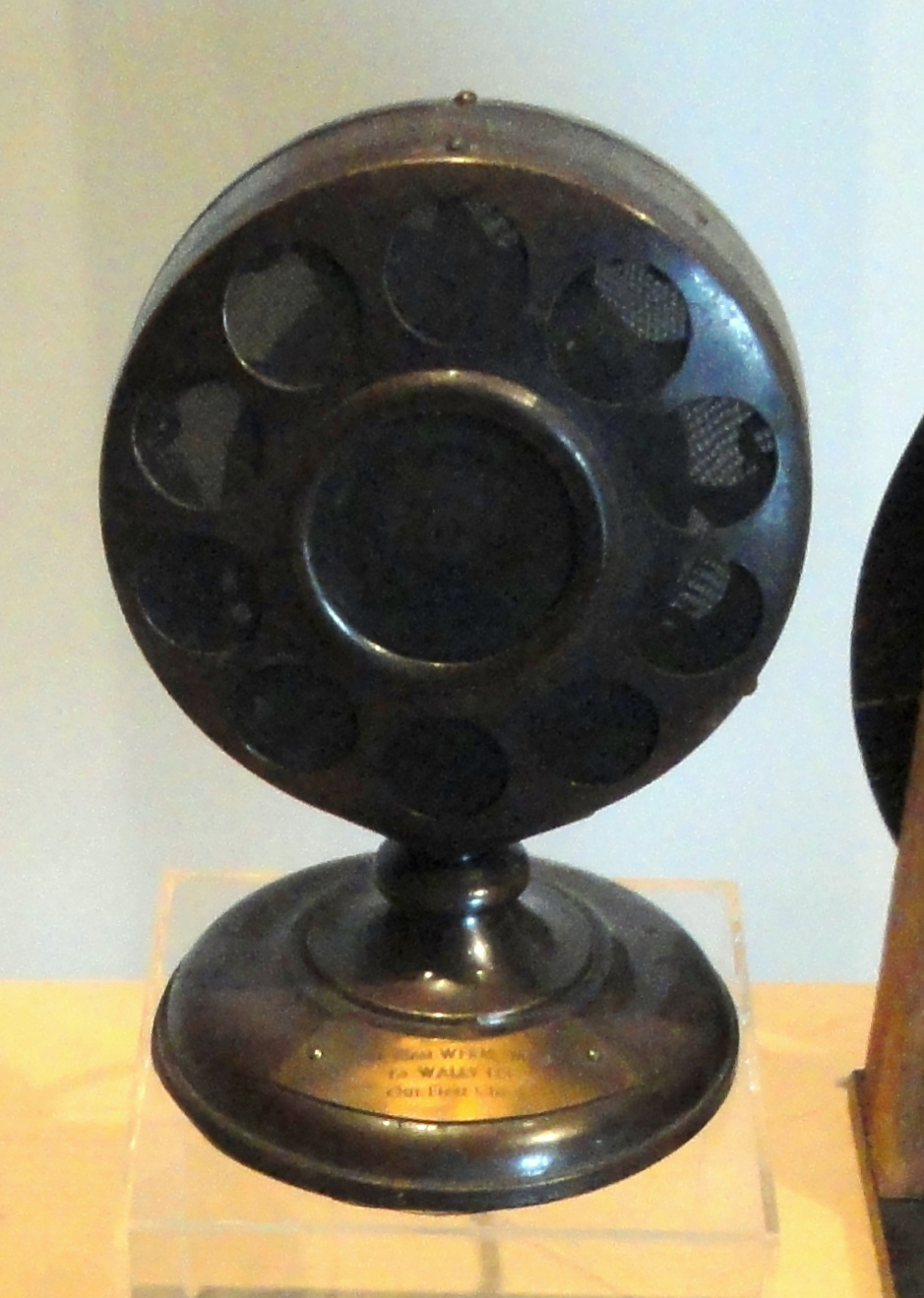 Western Electric Model 357 double button carbon microphone in 1B housing, used at WFBM, the first radio station in Indianapolis, Indiana, USA, from its founding in 1924. The double button microphone was developed around 1921 by Western Electric and was extremely widely used as a broadcast and recording microphone through the 1920s because it had significantly lower noise and harmonic distortion. It is often called the "ring and spring" micrphone, as it is often seen in period photos with its cover removed. as a small microphone cylinder suspended in the center of a metal ring by springs. Carbon microphones consist of a cell containing carbon granules between two electrodes in contact with a diaphragm, but they have high harmonic distortion because the change in resistance of the carbon is nonlinear, different under compression than under tension. The double button design used two carbon cells in contact with the diaphragm on either side. They were connected to a battery and center-tapped audio transformer in a "push-pull" circuit, which canceled even-order harmonic distortion. The stiff duralumin diaphragm had a small excursion which further reduced distortion and high resonant frequency and air damping which gave it a flatter frequency response. However the cost of this higher fidelity was that it had very low output. Caption of label card: "Announcers at WFBM, Indianapolis were using this microphone when the enterprise became Indianapolis' first successful radio station in 1924"